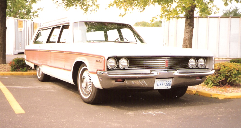 1968 Chrysler Newport Town & Country station wagon I photographed in Pittsburgh, Pennsylvania in June 2000.